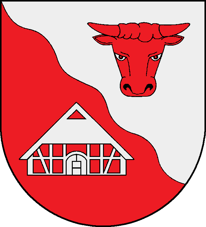 Coat of arms of the municipality Stafstedt in Schleswig-Holstein, Germany.